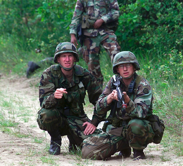 Sgt. Zachary Sarver (center) and Spc. Gary Vandenbos (left) negotiate with a role-playing inebriated woodsman whose land their patrol passed through during a field training portion of Exercise Peaceshield 2000 in Yavoriv, Ukraine, on July 16, 2000. Approximately 1000 soldiers from 22 countries are taking part in the peacekeeping training exercise at the Partnership for Peace Training Center at Yavoriv. Sarver and Vandenbos are attached to Bravo Company, 2nd Battalion, 130th Infantry, Illinois Army National Guard. DoD photo by Staff Sgt. Chris Steffen, U.S. Air Force. (Released)